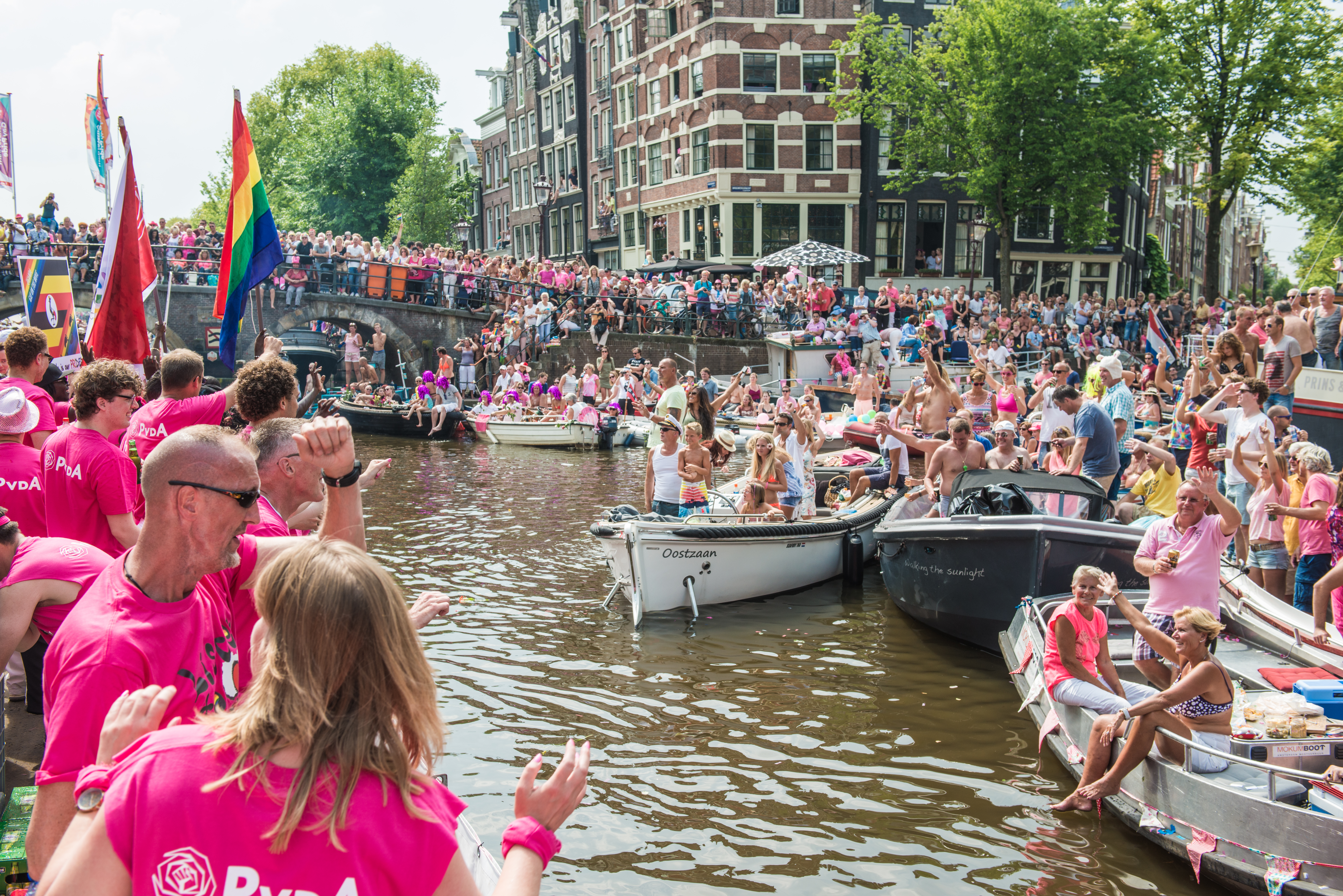 Photo Jasmine /